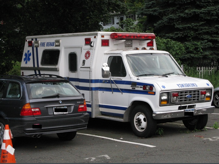 1991 Ford LifeLine Ambulance. Former 911 (emergency) response unit, now refitted for use as a Fire Rehab unit